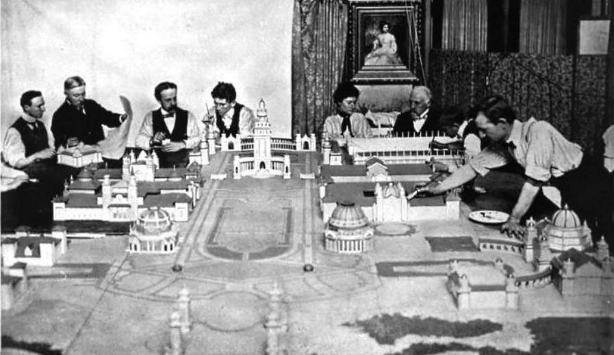 1901 photograph of the a planning stage of the Pan-American Exposition displaying a group of people sitting around a model of the buildings and grounds of the Exposition. Caption: "Bird's-eye view of the forthcoming Pan-American Exposition at Buffalo, as seen in the studio of Mr. Turner."